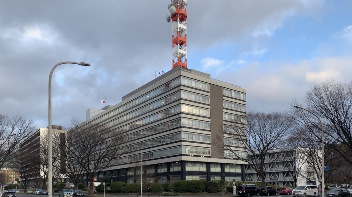 2020年2月10日16:50 撮影